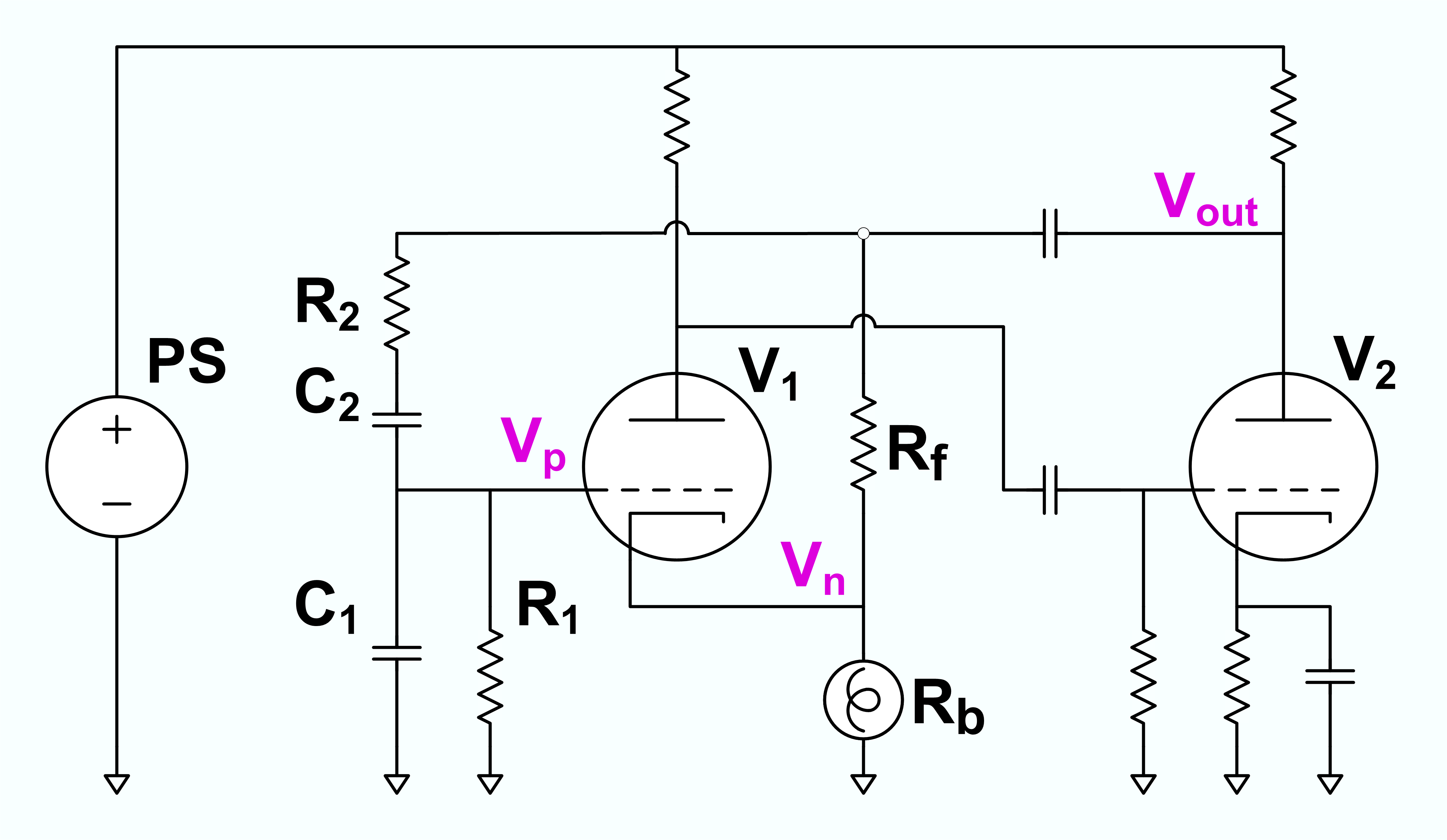 Simplified schematic of a Wien bridge oscillator from Hewlett’s US patent 2,268,873. Unmarked capacitors have enough capacitance to be considered short circuits at signal frequency. Unmarked resisters are considered to be appropriate values for biasing and loading the vacuum tubes. Node labels and reference designators in this figure are not the same as used in the patent.